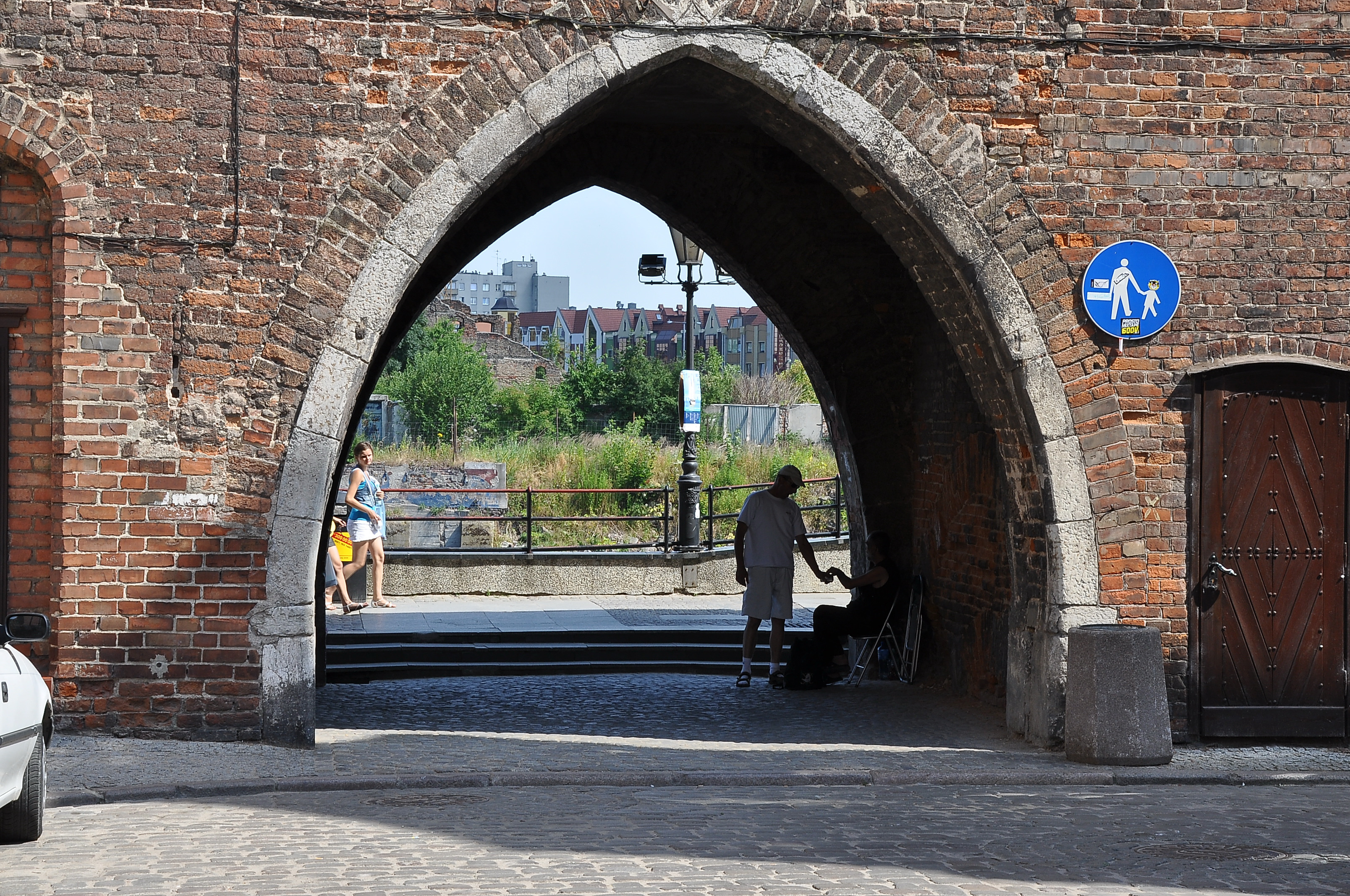 Chlebnicka Gate in the Main Town of Gdansk, Poland